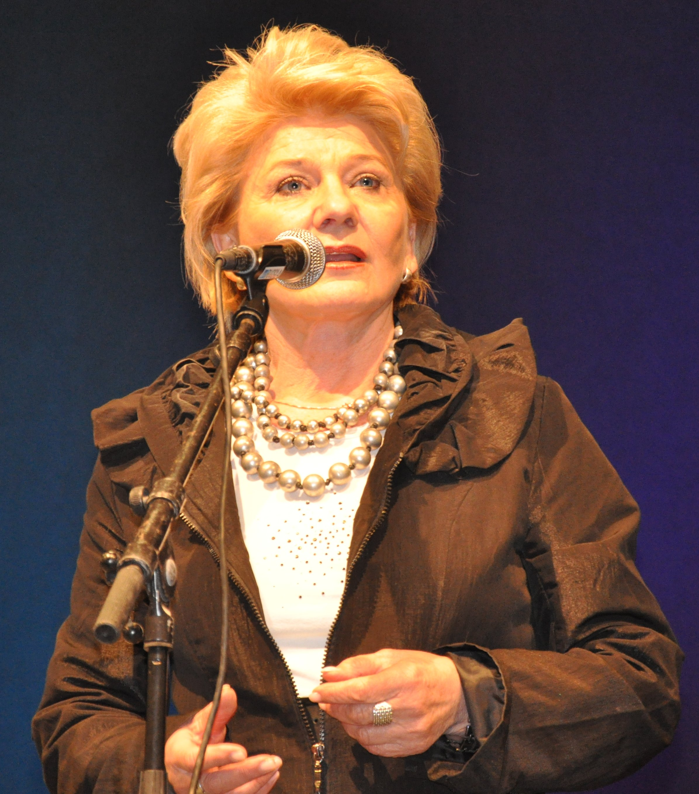 Finnish actor and singer Ritva Oksanen performing at the Jyväskylä Book Fair 2009.